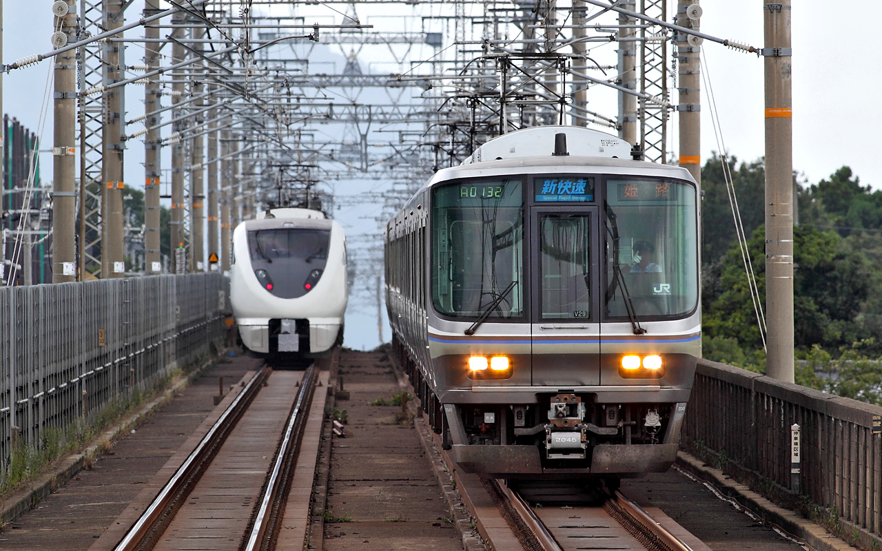 JR West 223 series EMU, at Hira Sta.